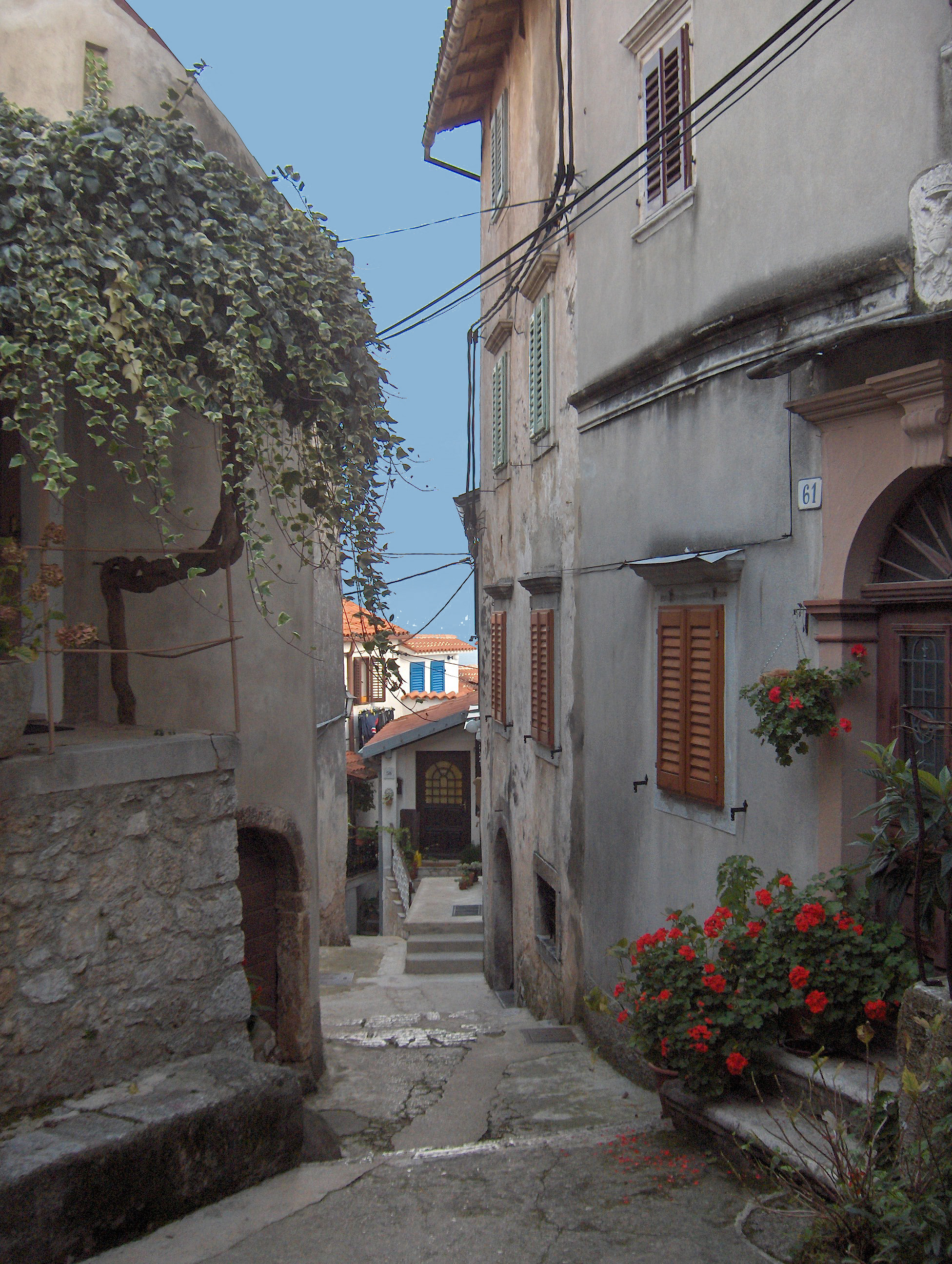 Narrow medieval streets in Mošćenice, Croatia